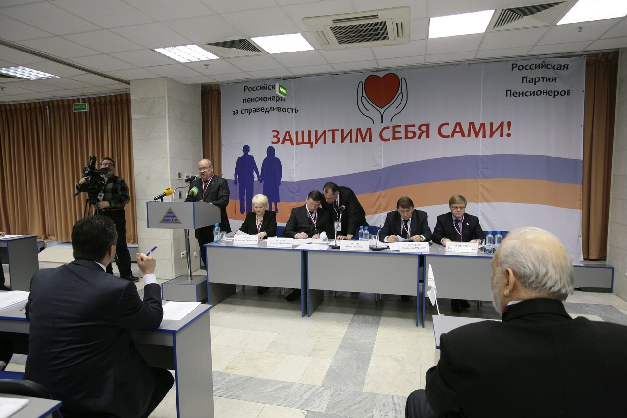 1 (8) Congress the "Russian party pensioners for justice"